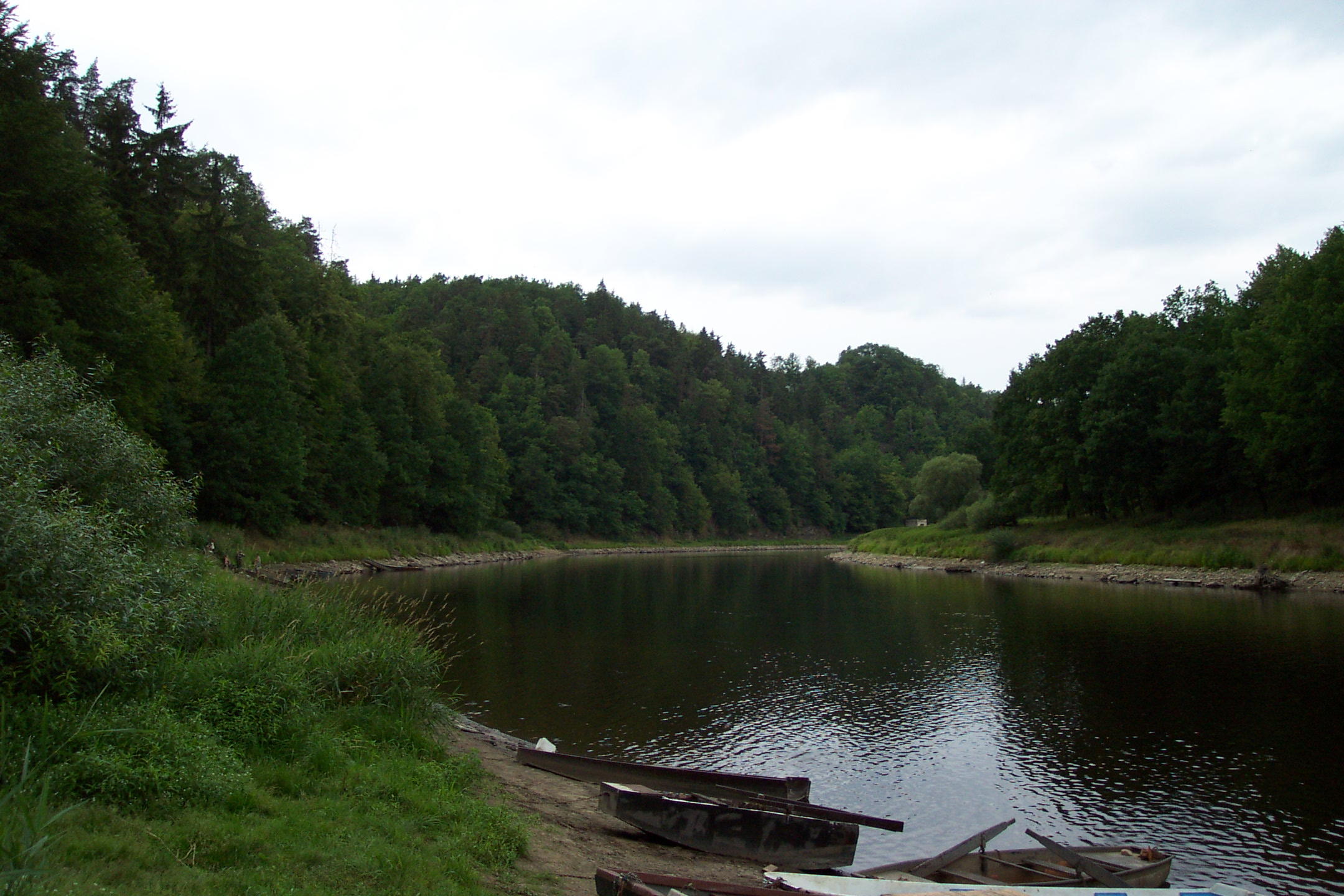 Otava River